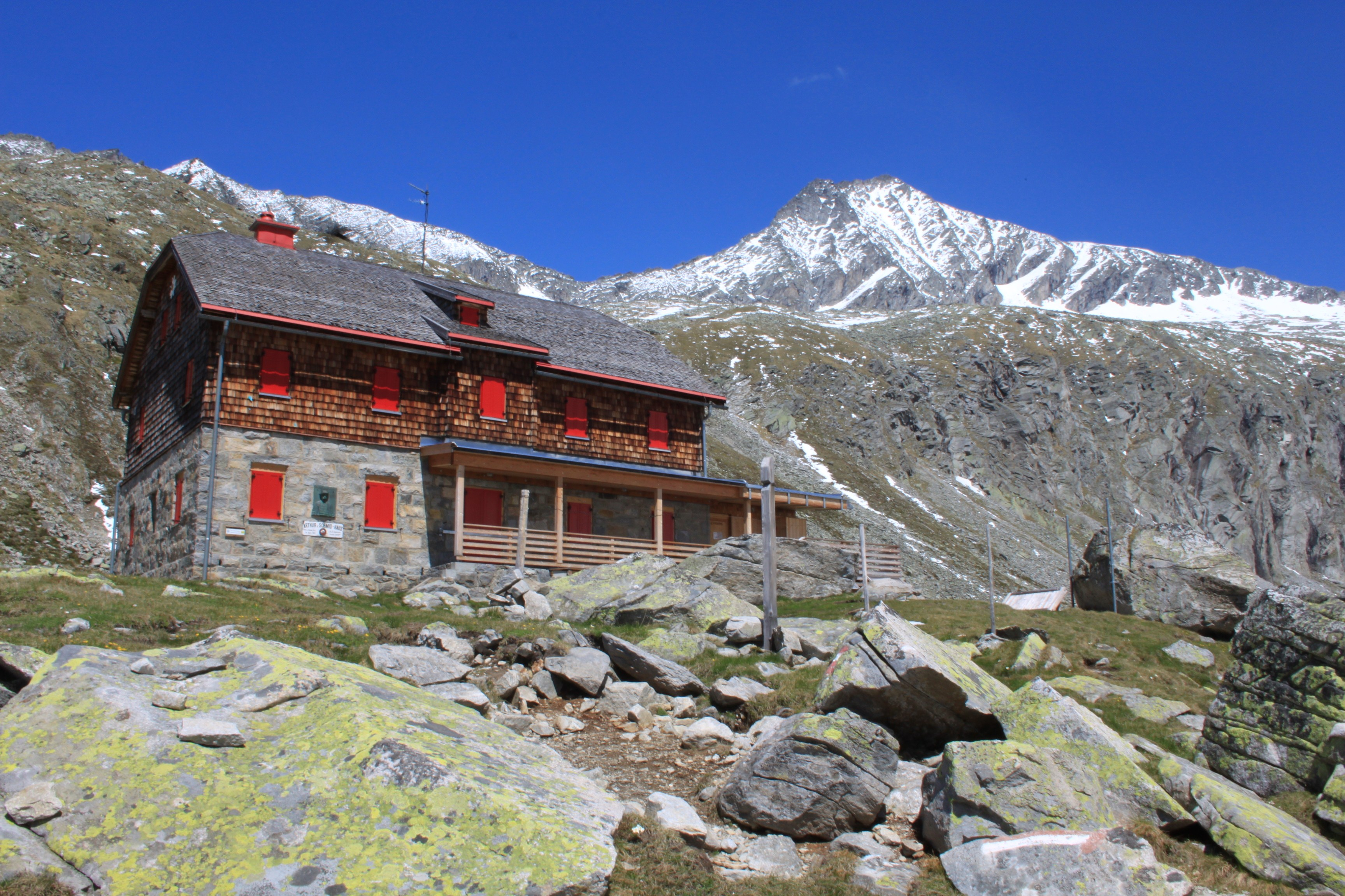 Alpine hut Arthur-von-Schmid-Haus with Mount Säuleck in the background, Austrian Carinthia.